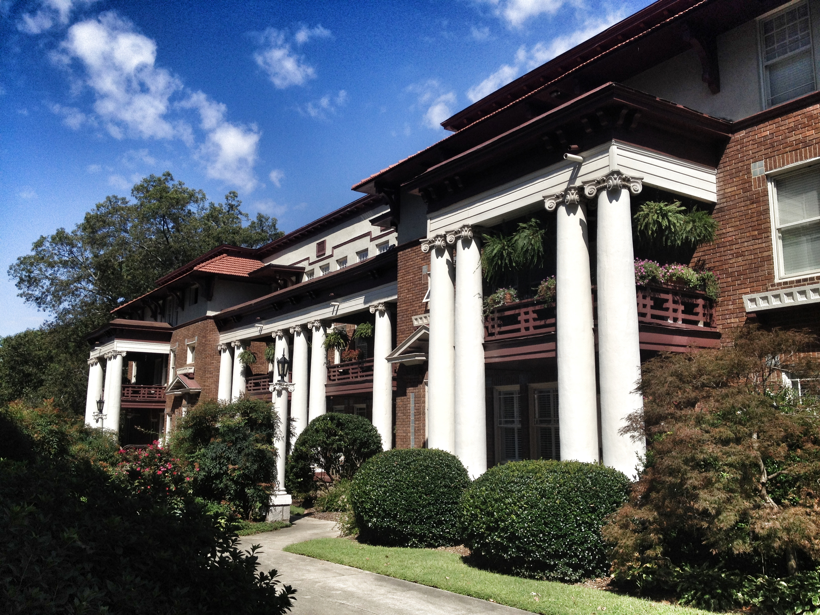 The Colonnades, 2012